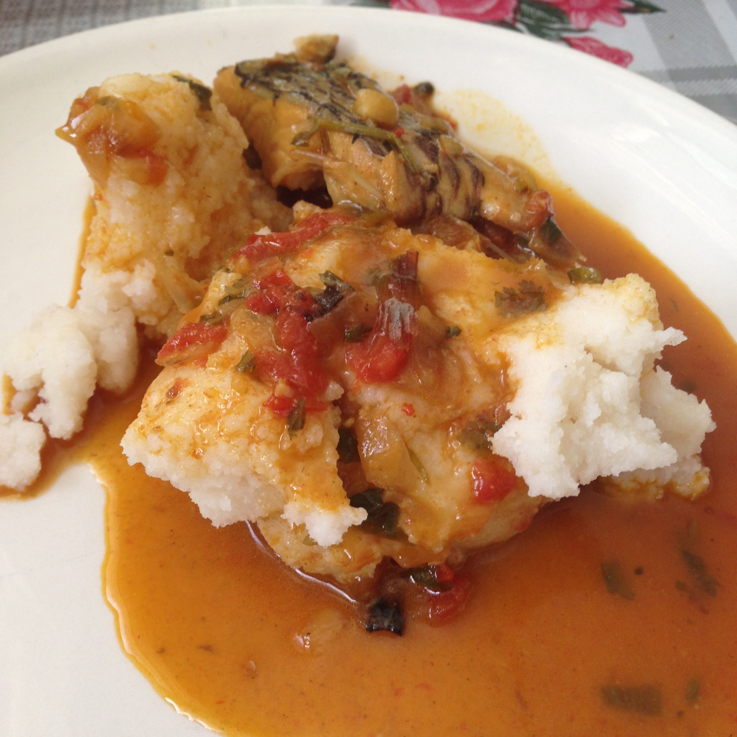 A Sunday treat: ugali served with fish curry. This is an image of food from Tanzania